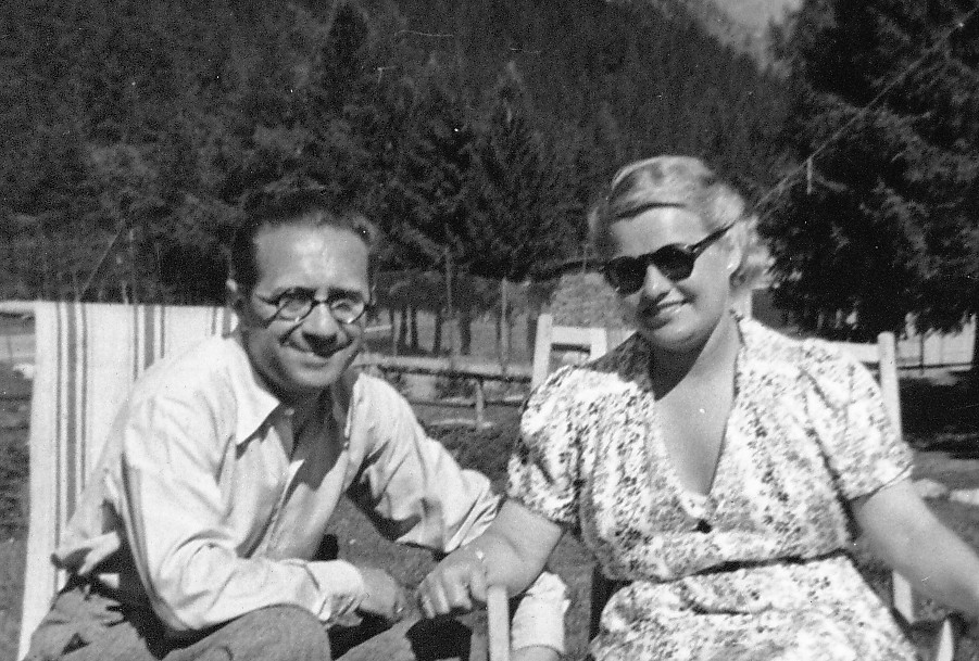 Frédéric Liebstoeckl (1900-1979), the Swiss music manager, with his wife Rose-Marie Jung (1911-1994), singer, in Champex in Summer 1947.